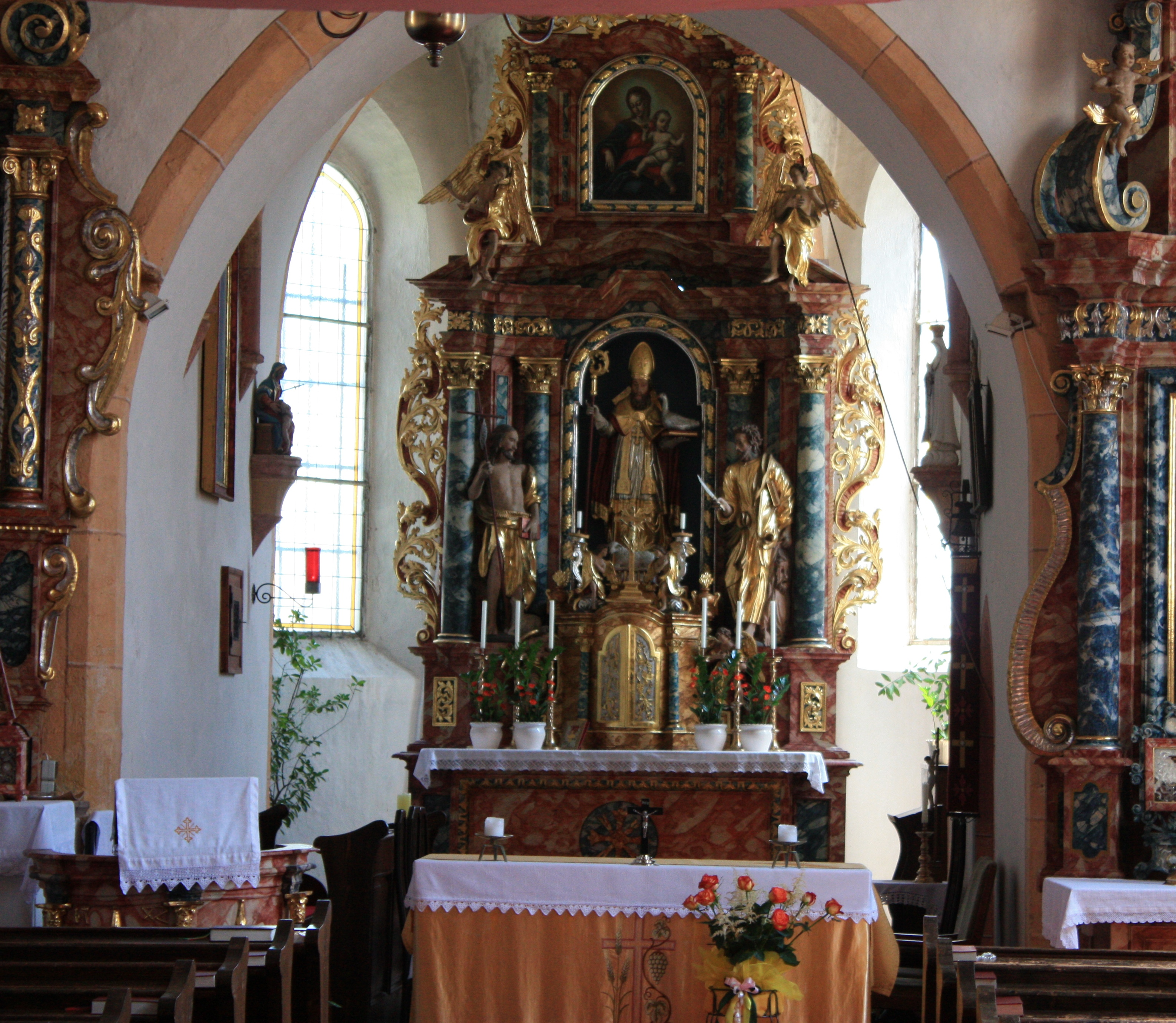 Interior of the parish church Saint Martin in Untergreutschach in the community of Griffen